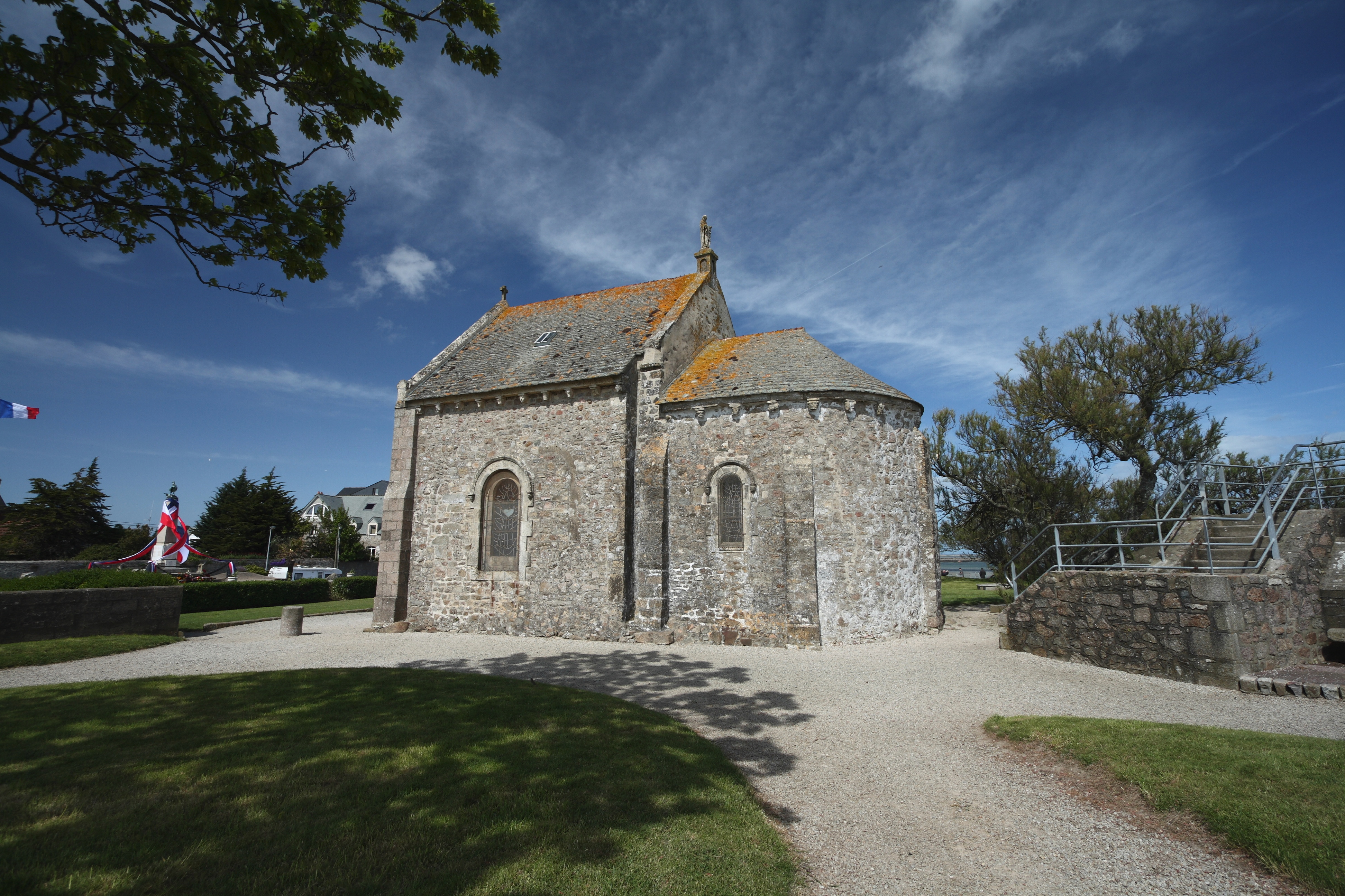 Chapel of sailors, in Saint-Vaast-la-Hougue, Normandy, France.